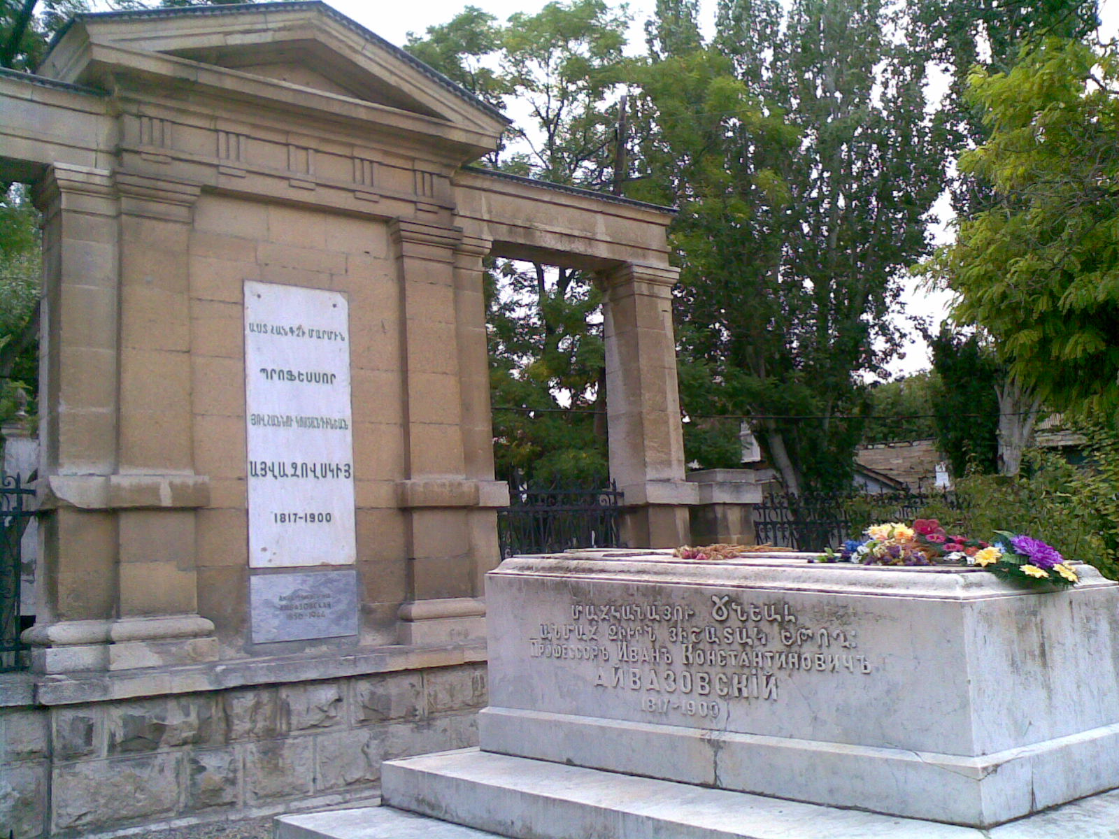 Feodosia_Aivazovsky_grave02